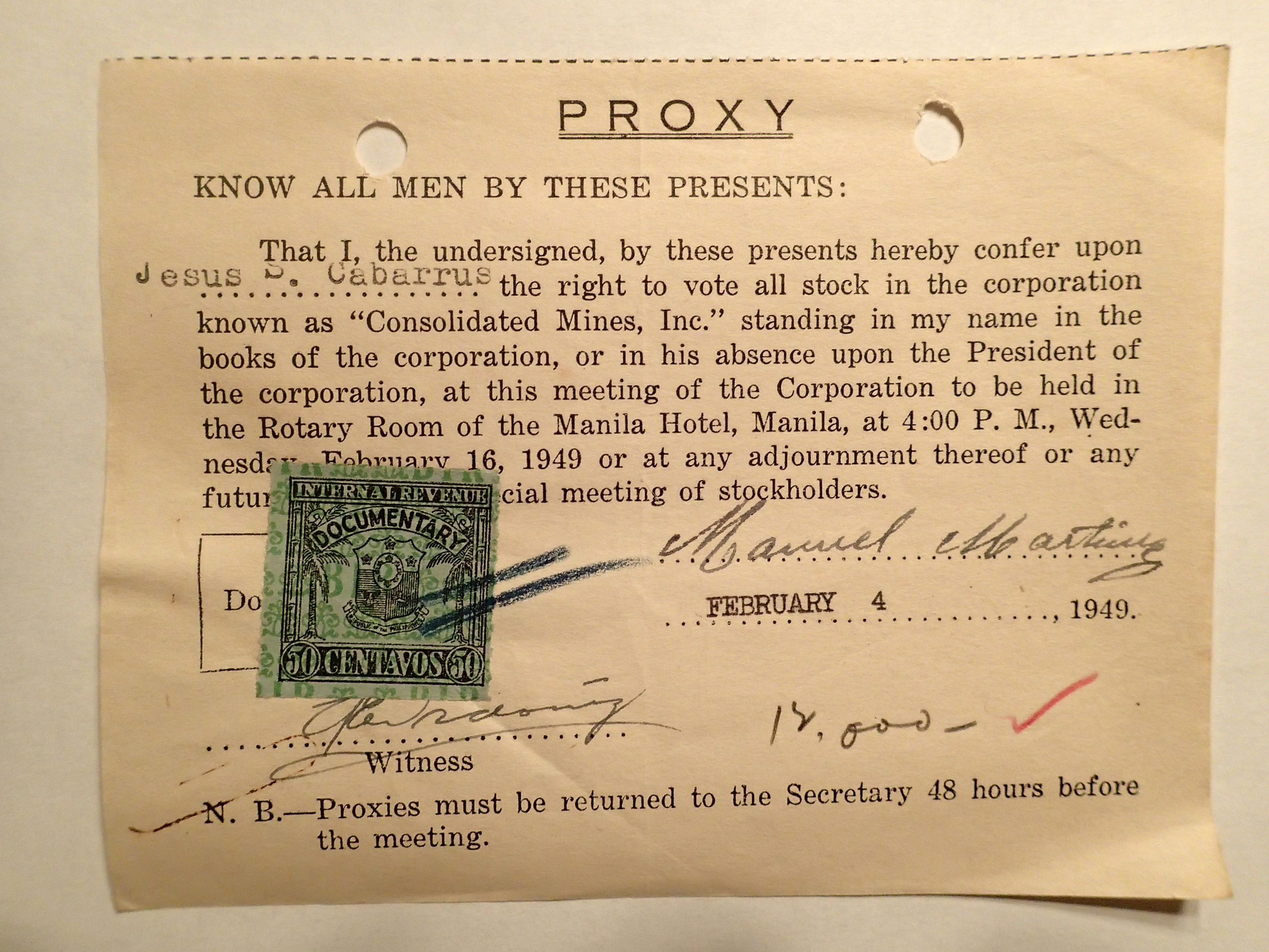 1947 Republic of Philippines Documentary Revenue 50 Centavos used on 1949 Proxy document. Warren #W-1304 Warren, Arnold H. (June 1968). "Fiscal Stamps of the Philippines Handbook-Catalogue, 1856 to date". American Philatelist 82: 516. American Philatelic Society.